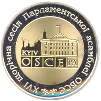 Coin of Ukraine